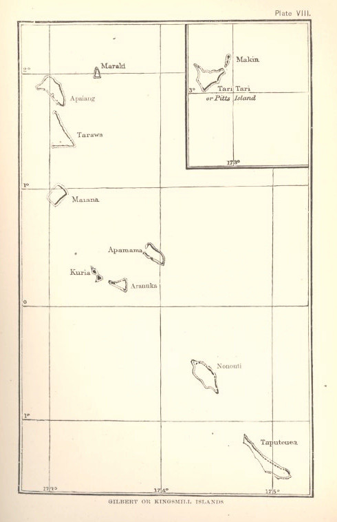 Gilbert or Kingsmill Islands Subject: Kiribati--Maps Geographic Subject: Kiribati Tag: Coasts